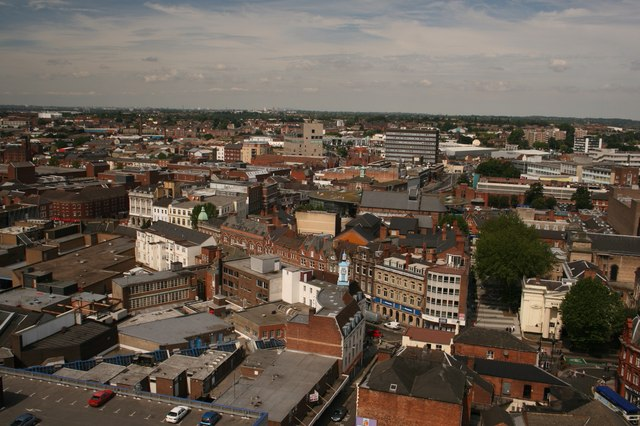 Walsall Original description: Walsall town centre This photo taken from a high vantage point overlooks Walsall Town Centre and beyond.